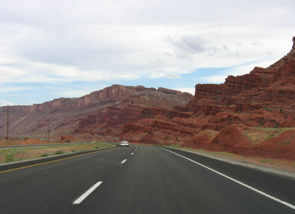 U.S. Route 191 passing through Moab Canyon, just north of Moab, Utah.